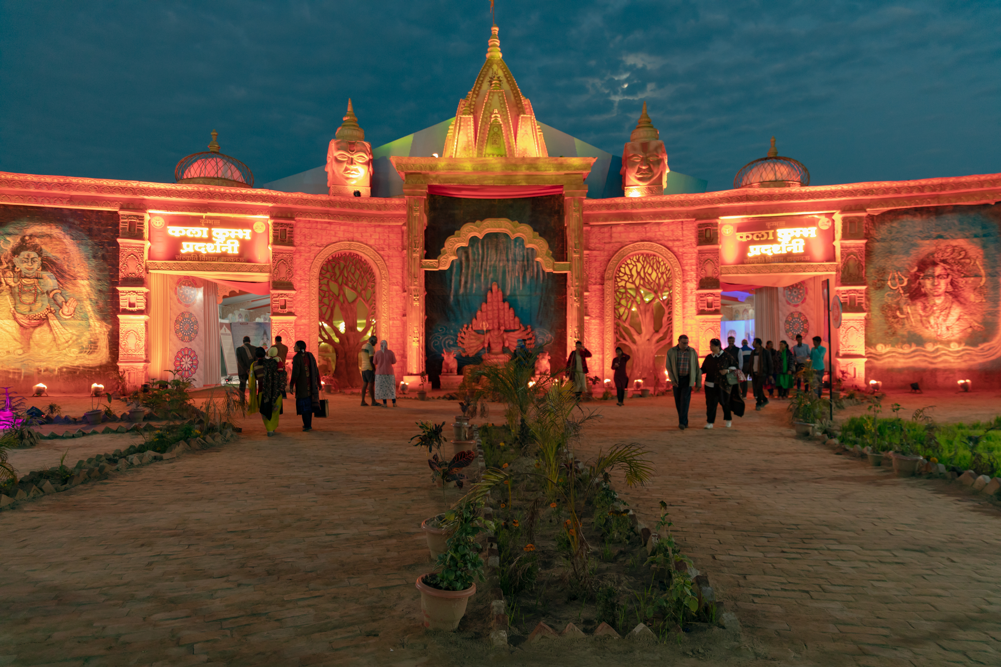 Allahabad - Prayagraj Cultural program Starting on January 15, 2019, and lasting until March 4, 2019, the Hindu festival of Kumbh Mela will take place in Allahabad, India. Authorities are expecting approximately 100 million visitors to come for a holy dip at Sangam, the confluence of the Ganges, Yamuna, and mythical Saraswati Rivers.